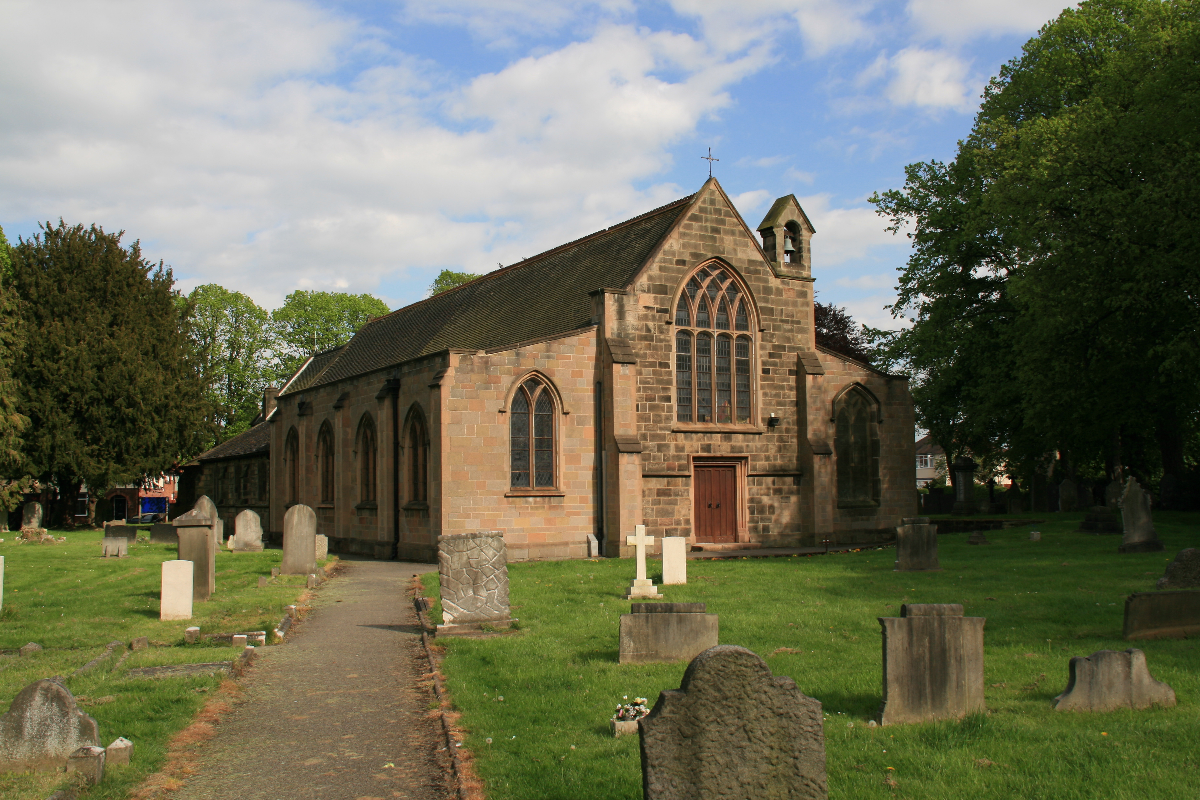 St Mary the Virgin parish church, Boulton, Derby, seen from the northwest